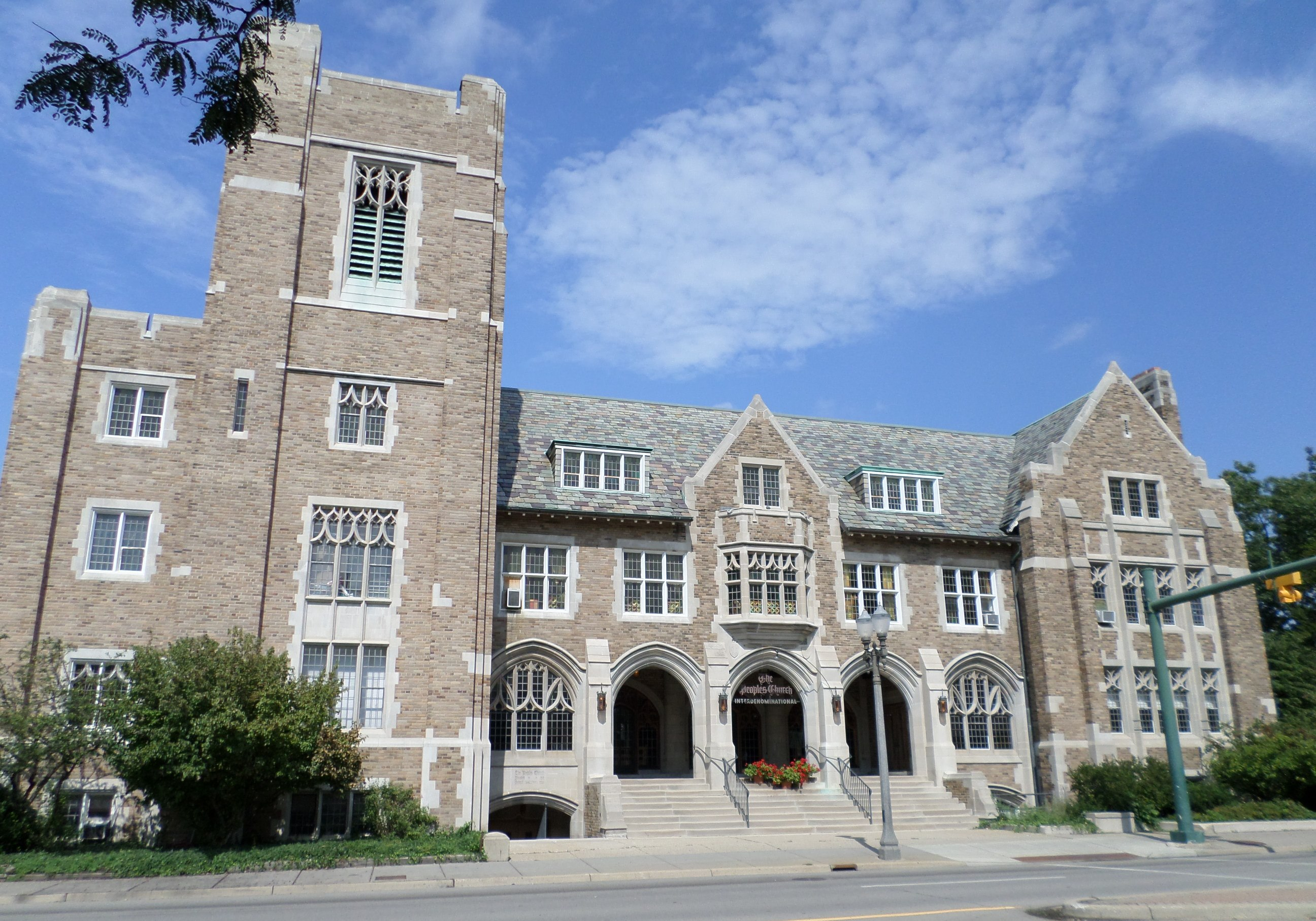 The Peoples Church, located at 200 W Grand River Ave, East Lansing, MI